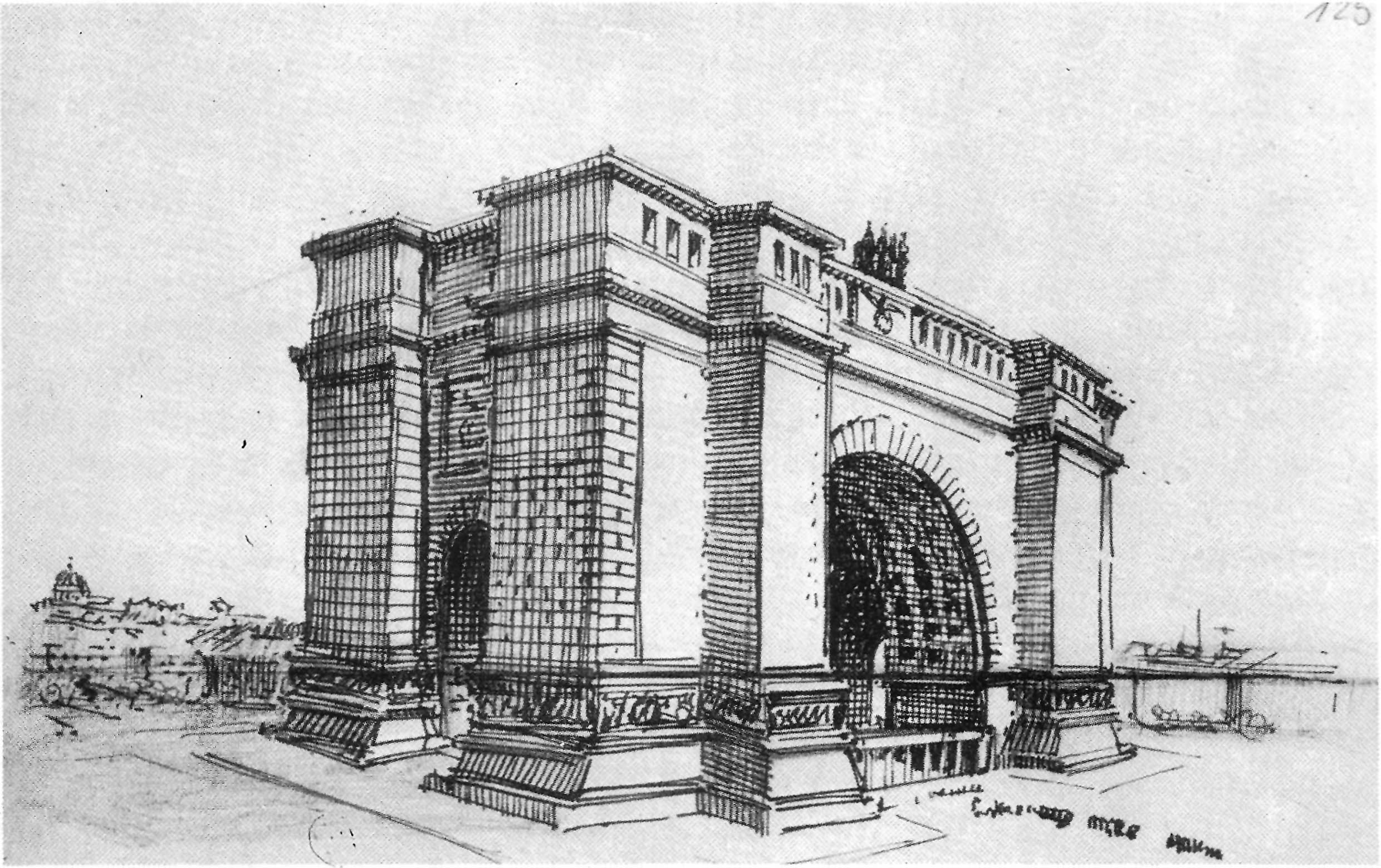 Hitler’s ink drawing of the Triumphal Arch for Germania